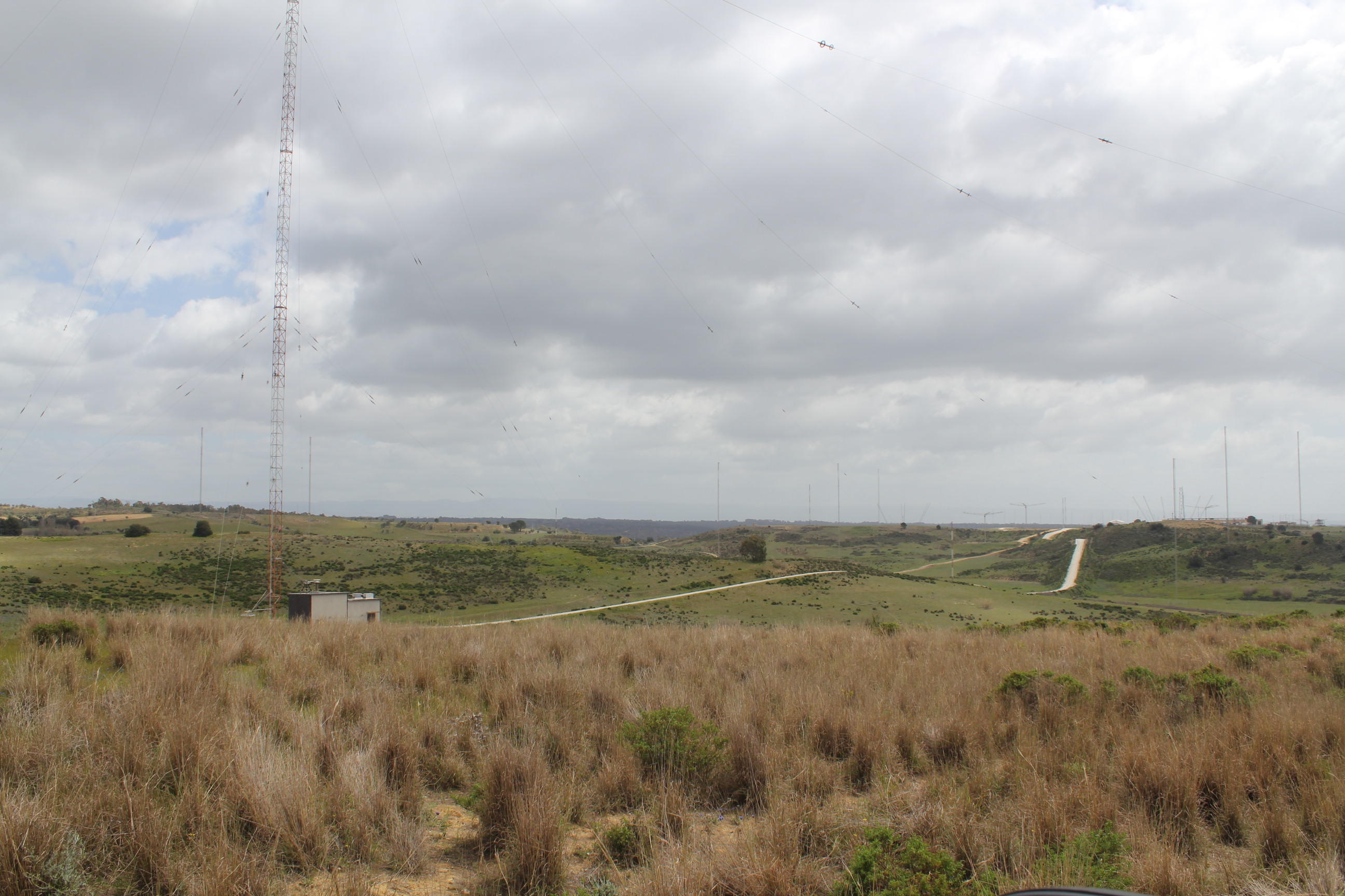 Naval Radio Transmitter Facility (NRTF) Niscemi, Low Frequency Antenna and support building in foreground left, High Frequency Antenna field in background, Main Facility building at right.